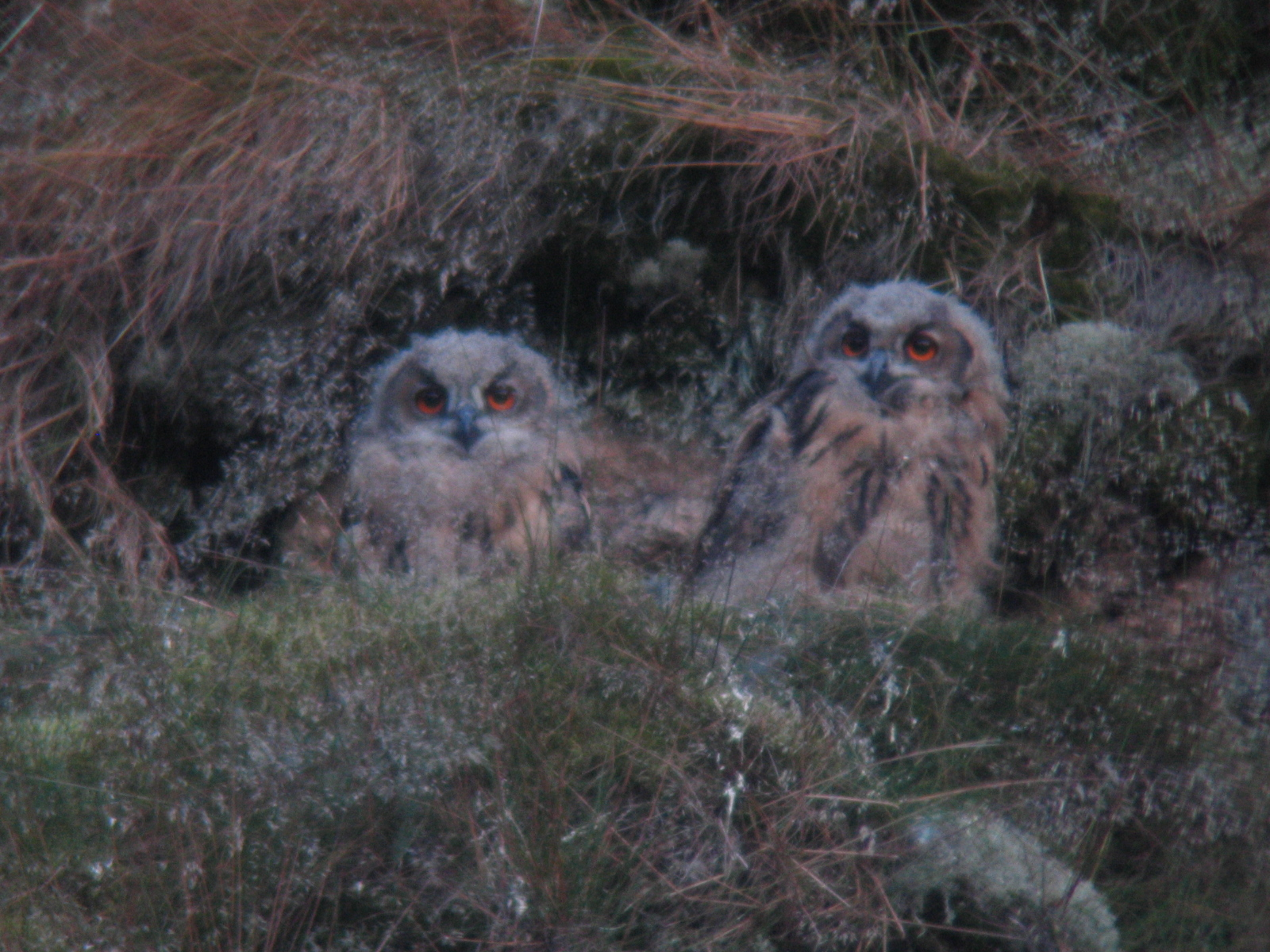 Two joung eagle owls on the rock Goldstein from the Bruchhauser Steine (Hochsauerlandkreis, North Rhine-Westphalia, Germany)